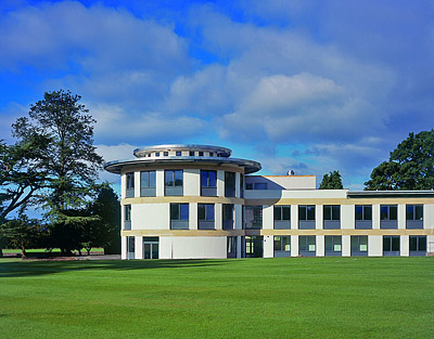 The Maguire Building, Dollar Academy